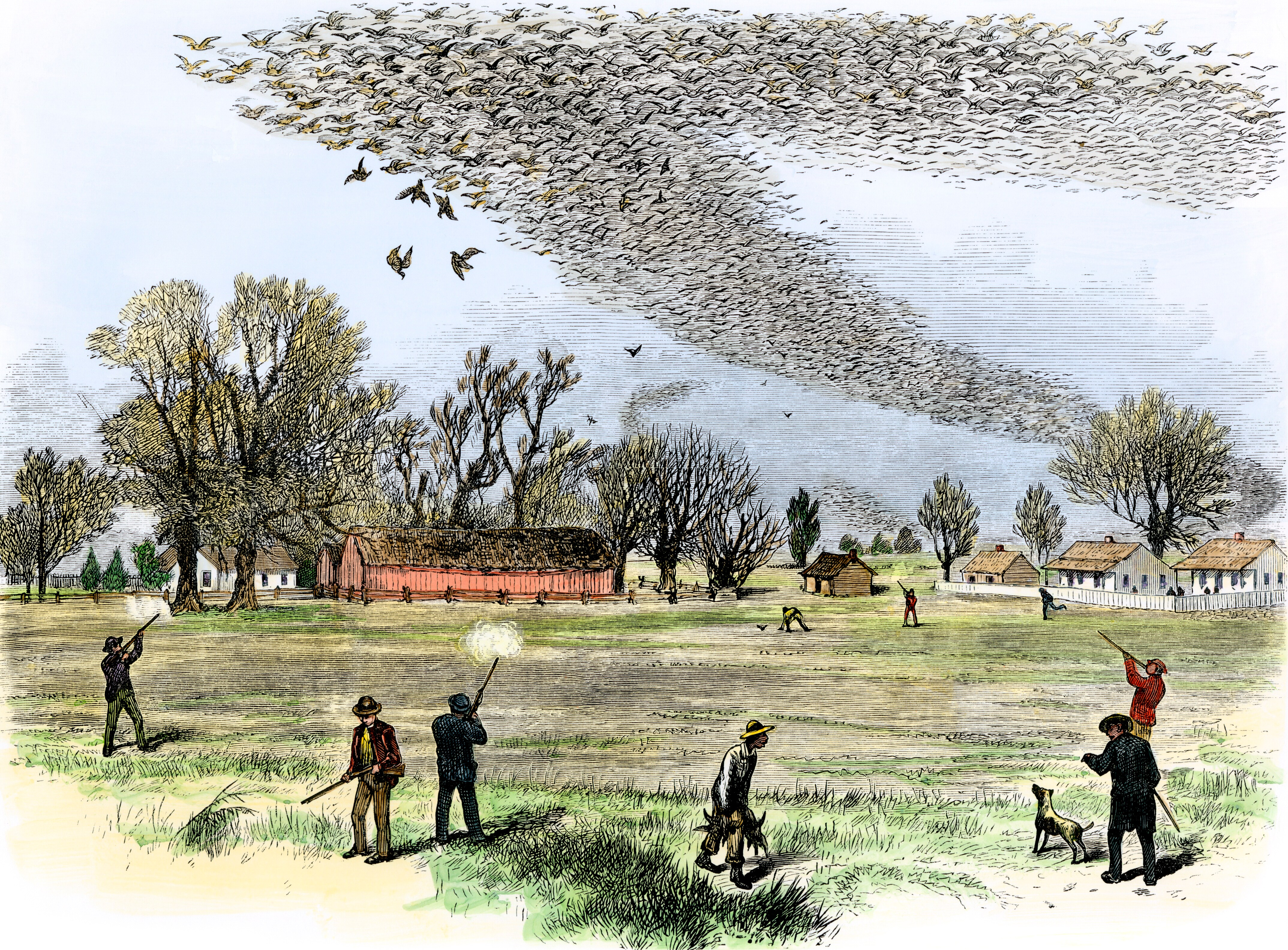 Passenger pigeon flock being hunted in Louisiana. The Illustrated Shooting and Dramatic News.